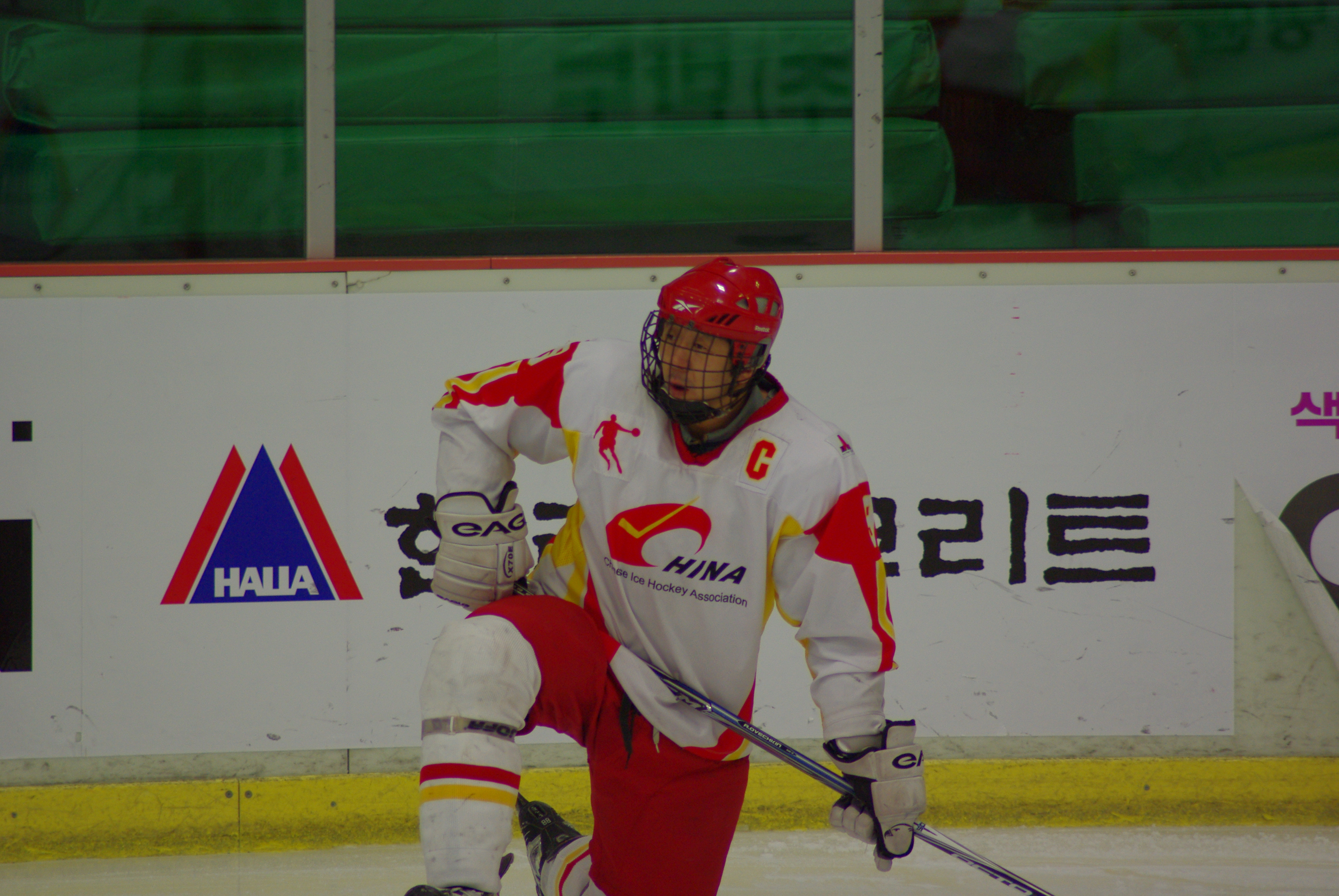 Wang Dahai playing for China Dragon